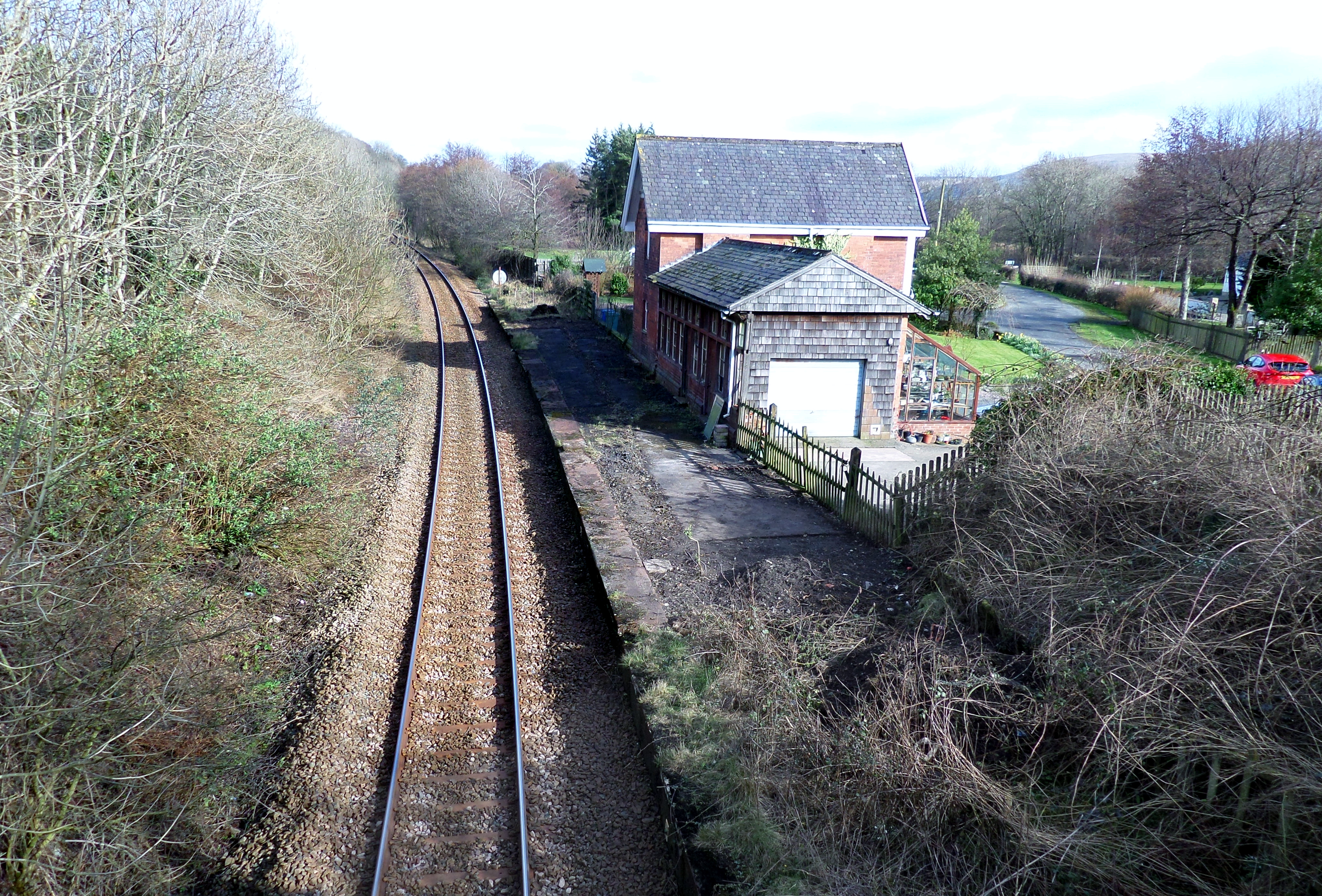 Killochan railway station, Girvan line, South Ayrshire, Scotland - from the road bridge.